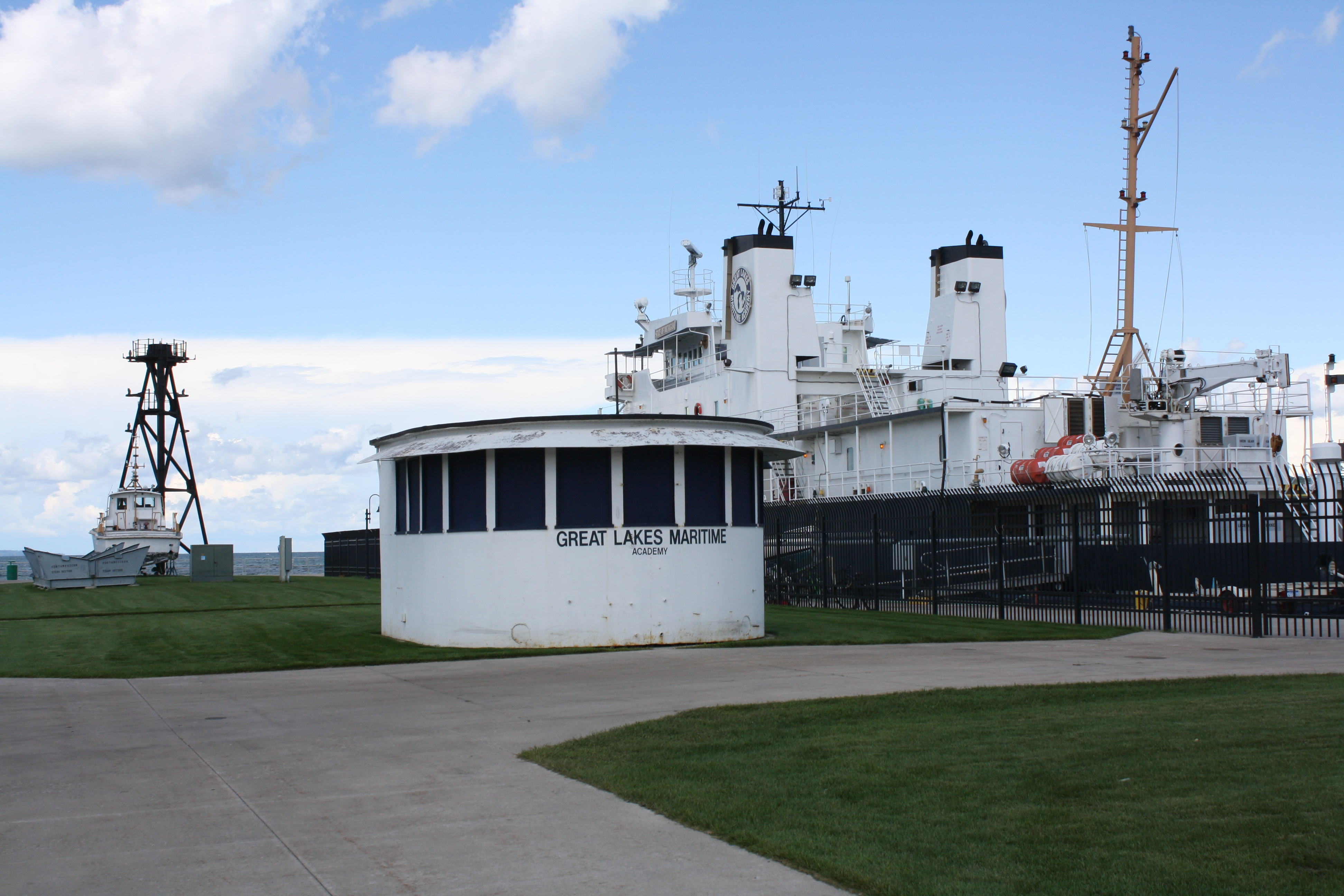 The Great Lakes Maritime Academy at Northwest Michigan College.